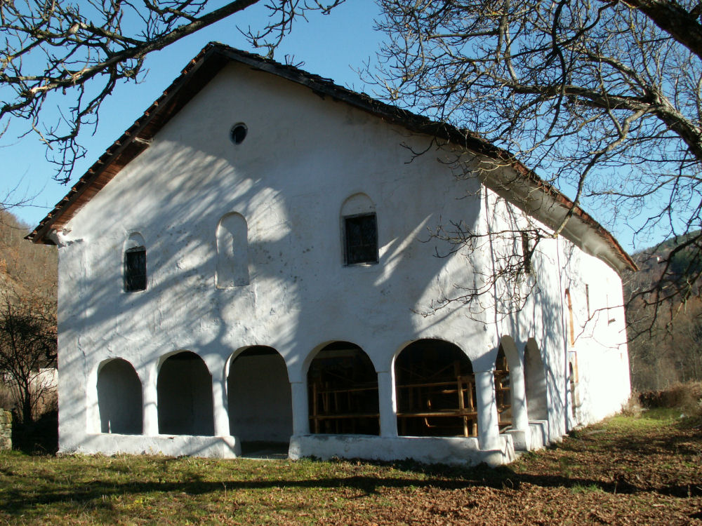 Saint George church, Lomnitsa, Bulgaria.